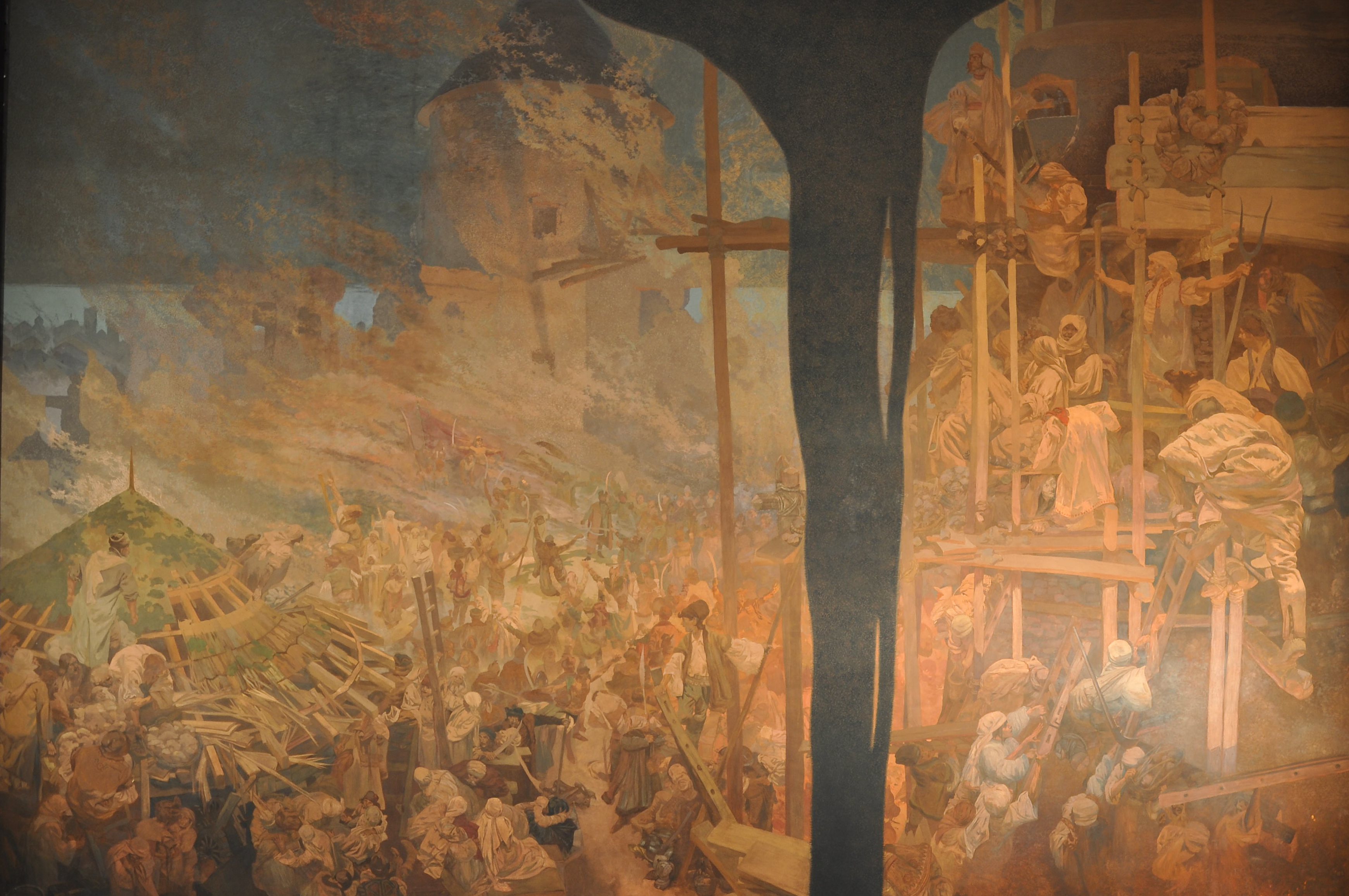 Defense of Sziget against the Turks by Nicholas Zrinsky Zrinyi Miklós megvédi Szigetet a törökök ellen